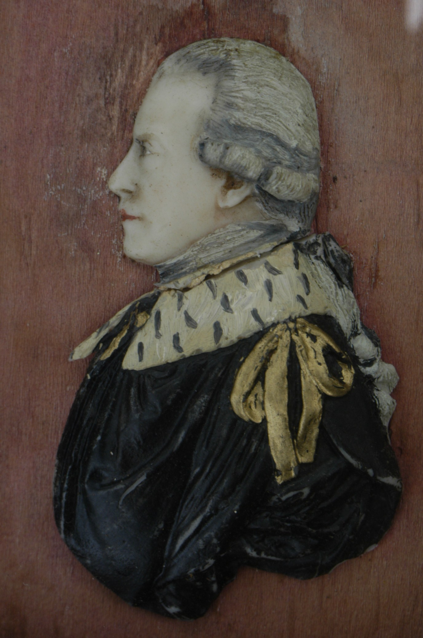 photo by me (Rodolph (talk) 23:05, 1 September 2013 (UTC)) of a wax profile of Lord Hillsborough (1718-93), according to a label on the back by 'Lewis', and ex. Lord Howe collection.